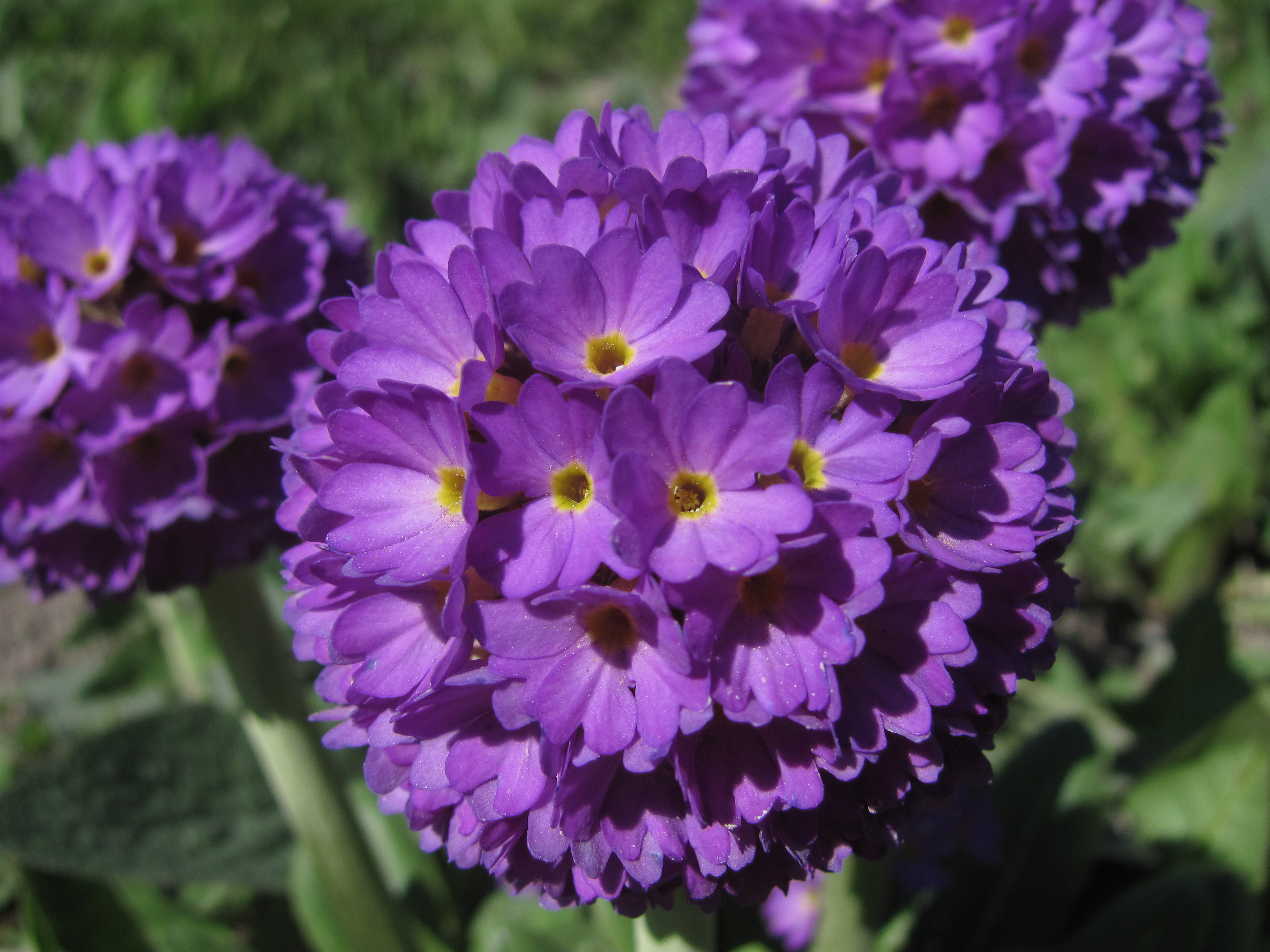 Primula denticulata (Sakhalin)